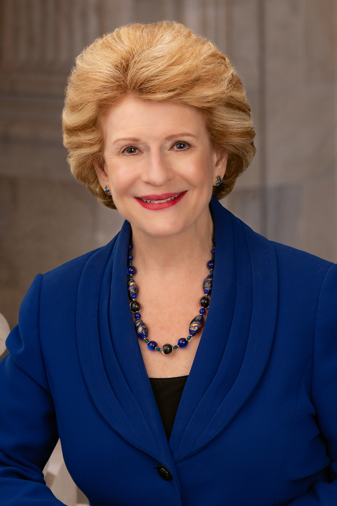 Debbie Stabenow, official photo, 116th United States Congress.